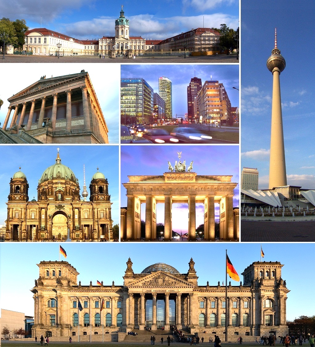 From top, left to right: the Charlottenburg Palace, the Fernsehturm Berlin, the Alte Nationalgalerie, the Potsdamer Platz, the Berlin Cathedral, the Brandenburger Tor, and the Reichstag